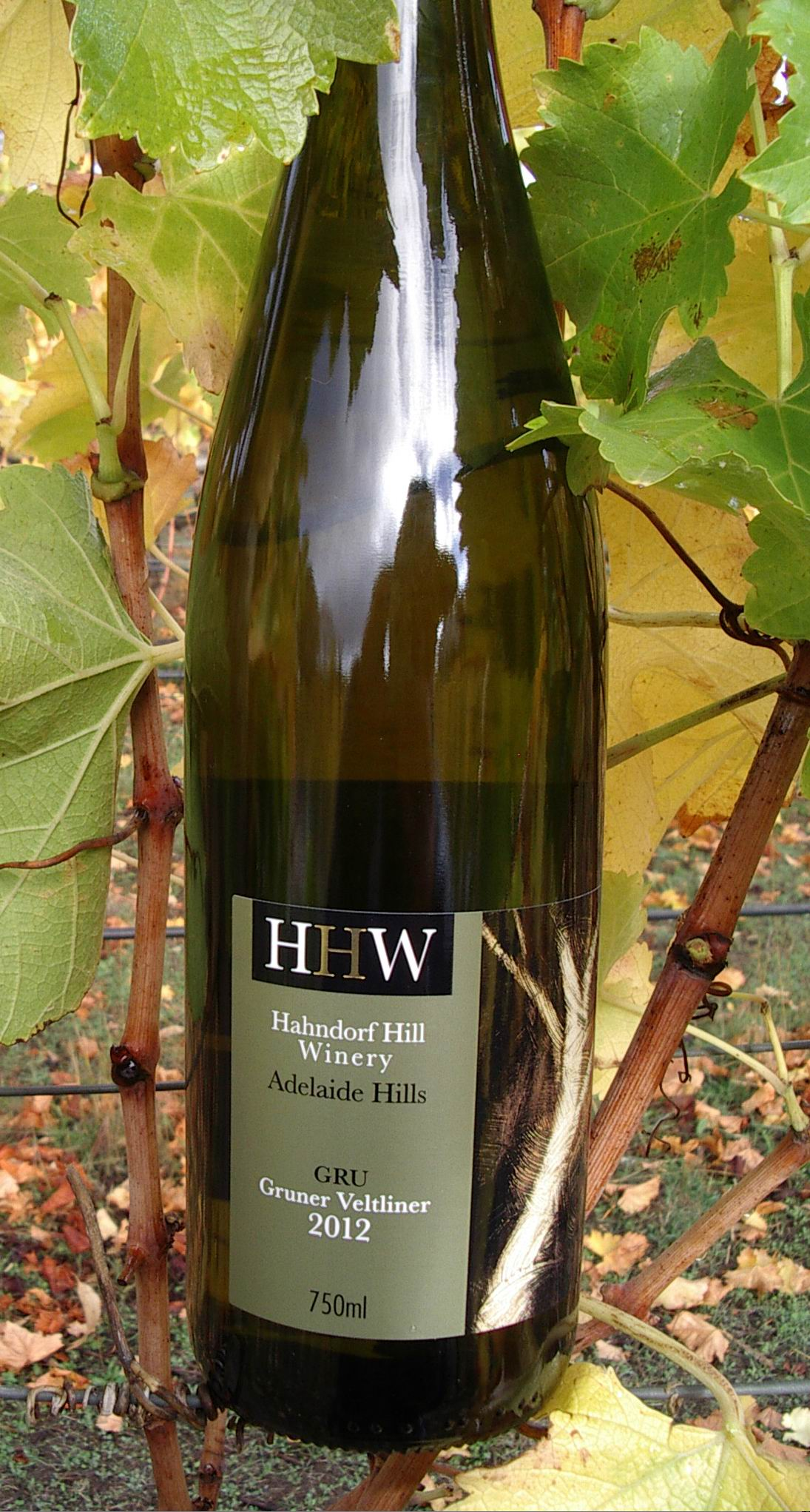 Hahndorf Hill Winery GRU Gruner Veltliner from the Adelaide Hills in South Australia.